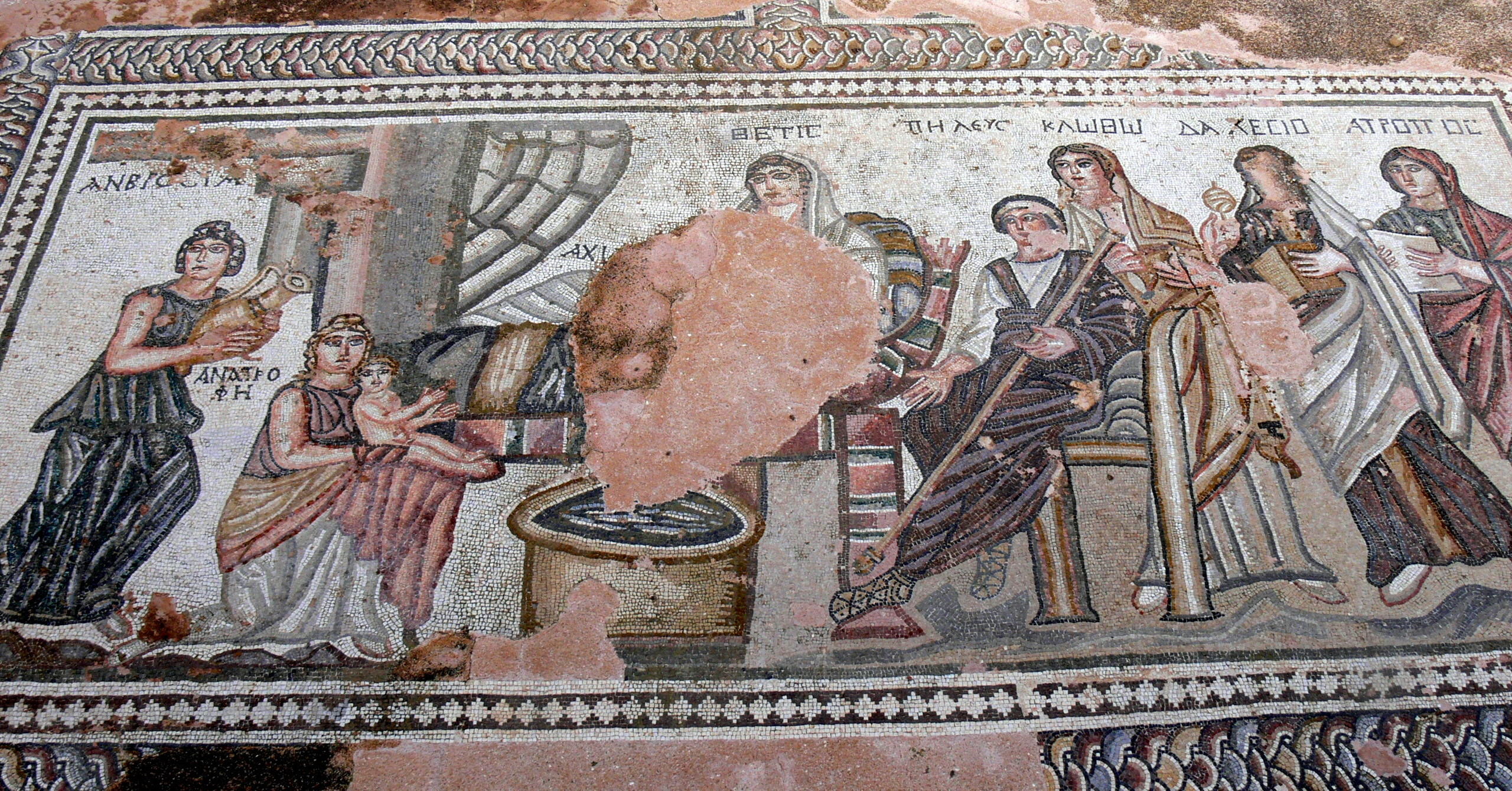 Paphos Archaeological Park. House of Theseus: Mosaic of the bath of Achilles.